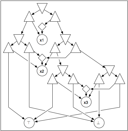 Description PDAG for the Boolean function f ( x 1 , x 2 , x 3 ) = − x 1 ∗ − x 2 ∗ − x 3 + x 1 ∗ x 2 + x 2 ∗ x 3 {\displaystyle f(x1,x2,x3)=-x1*-x2*-x3+x1*x2+x2*x3} obtained directly from f {\displaystyle f} 's BDD graph. Source self-made